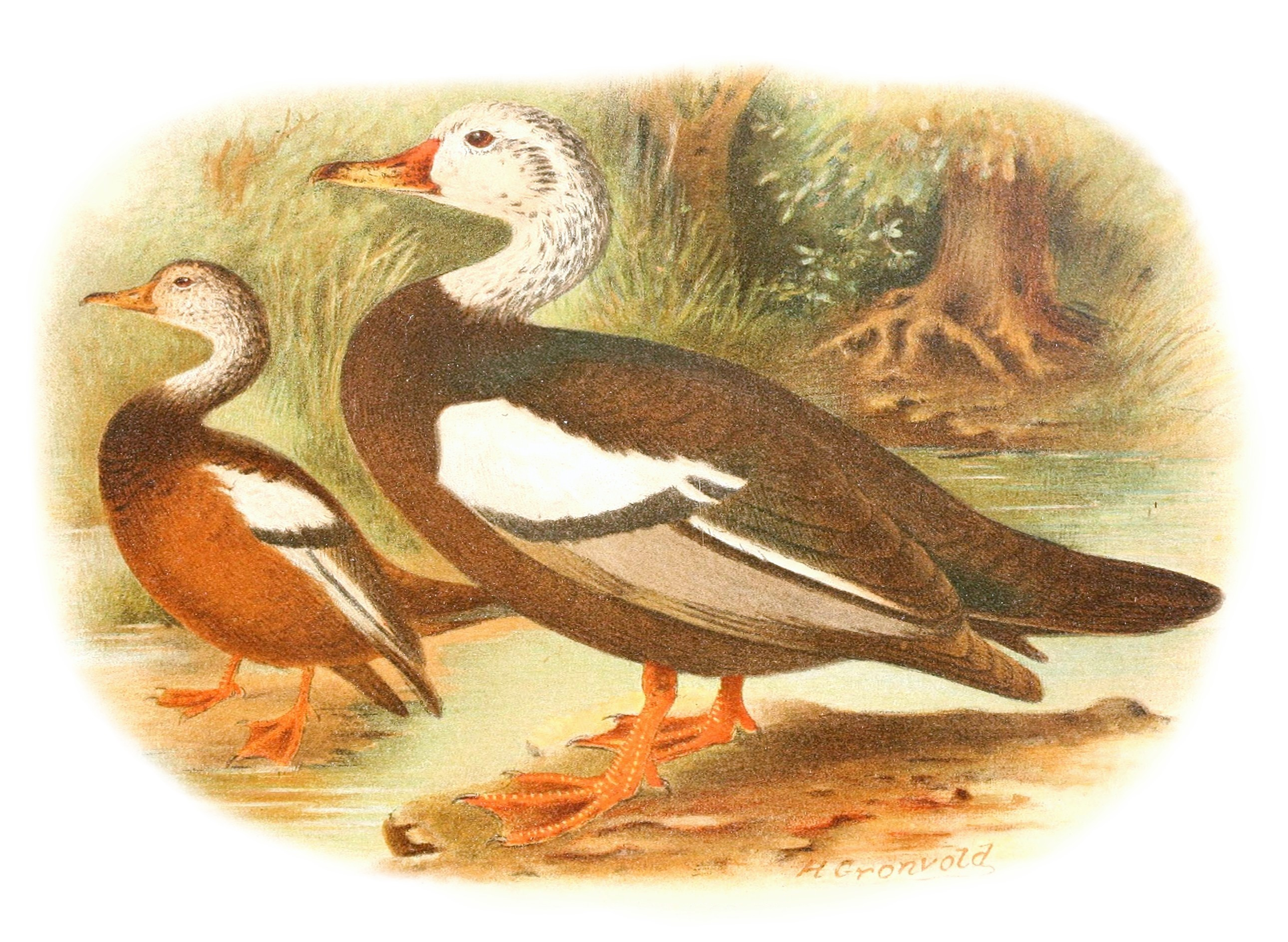 The White-winged Wood Duck Asacornis scutulata = Asarcornis scutulata (White-winged Wood Duck)